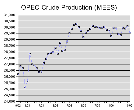 The author of this chart is a user on The Oil Drum named Capslock. He released it into the public domain here, with these words: "Of course it is public domain. I did nothing creative, the software I used did!" It is based on MEES data available here.